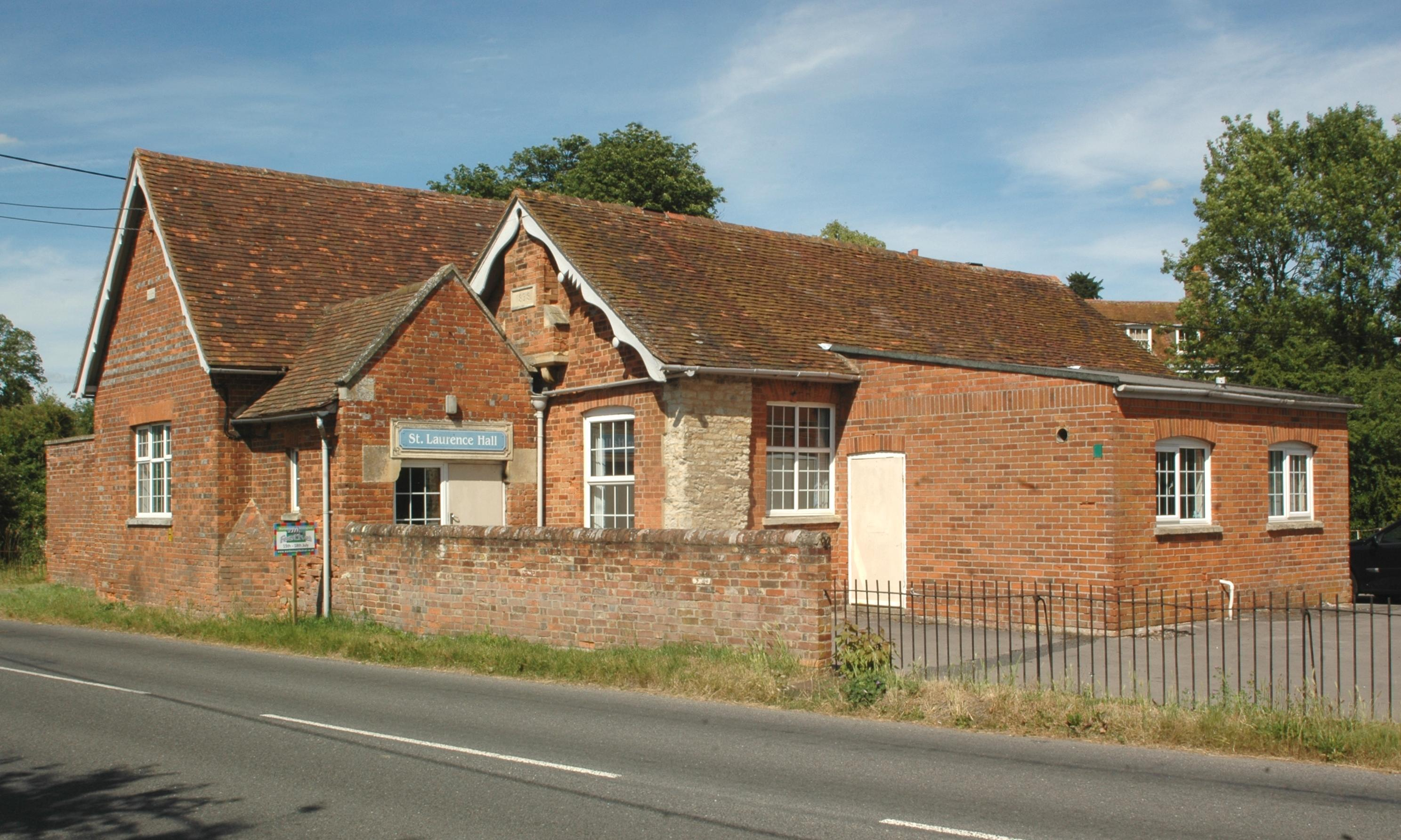 Village hall and former parish school at Warborough, Oxfordshire.